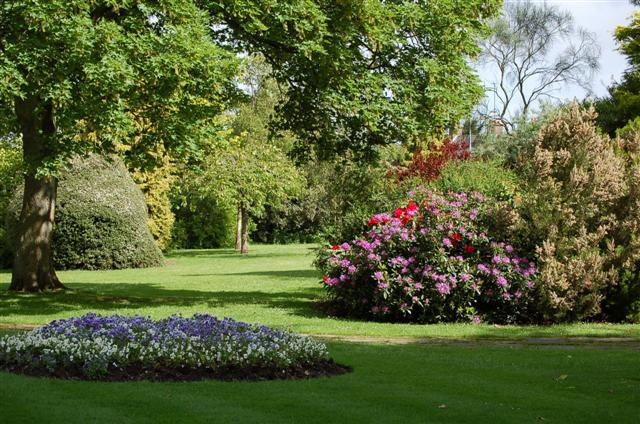 Musgrave Park Opened in 1924, the grounds of Musgrave Park were donated to the residents of Belfast by Henry Musgrave, who lived in nearby Drumglass House